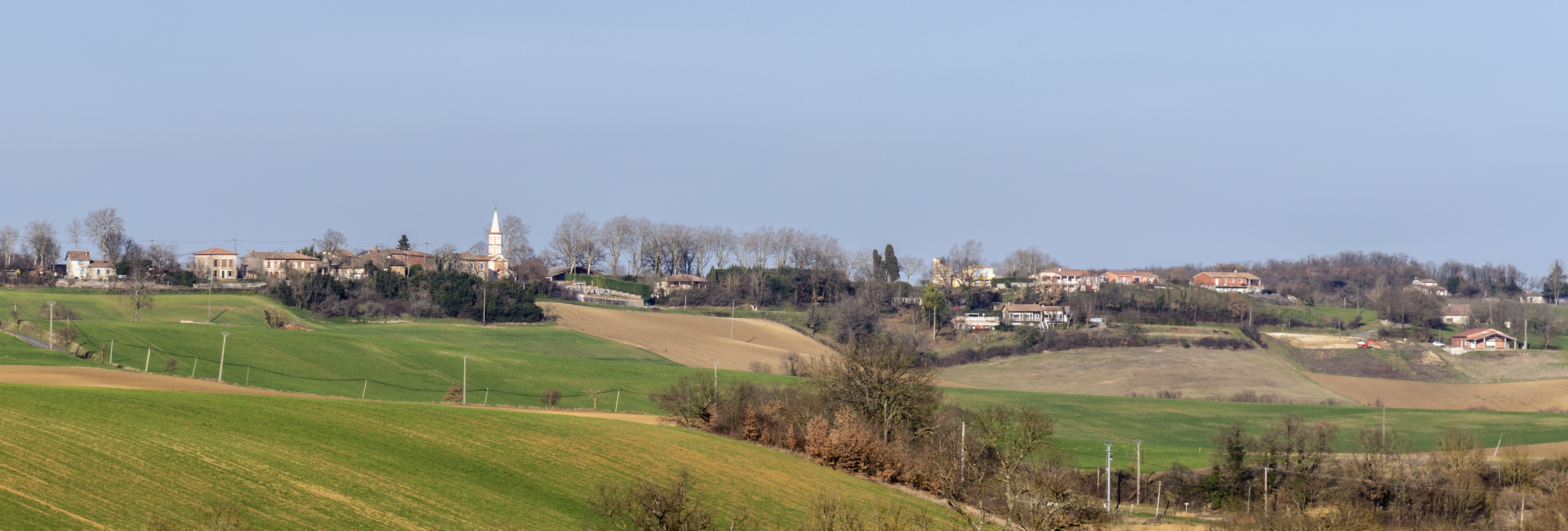 Puysségur, Haute-Garonne, France, South exposure.